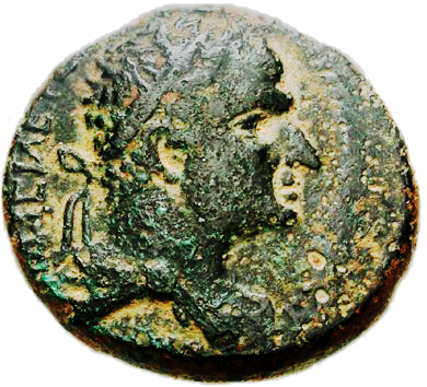 JUDAEA, Herodians. Agrippa I. 37-43 CE. Æ 21mm (9.61 g, 12h). Caesarea Maritima mint. Dated RY 7 (42/3 CE). Diademed head right / Tyche of Caesarea standing left, holding rudder and palm; LZ (date) to right. Meshorer 122; Hendin 555. VF, black-green patina with earthen deposits